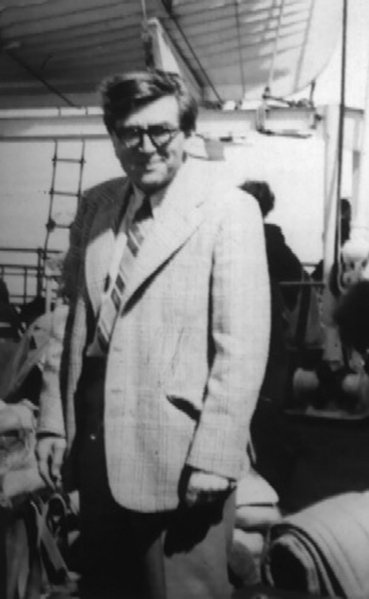 Henryk Zygalski - Polish mathematician and cryptologist, helped decipher Enigma.